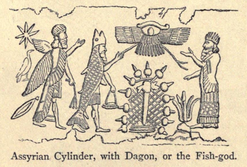 Engraving of an Assyrian Cylinder, with Dagon, or the Fish-god